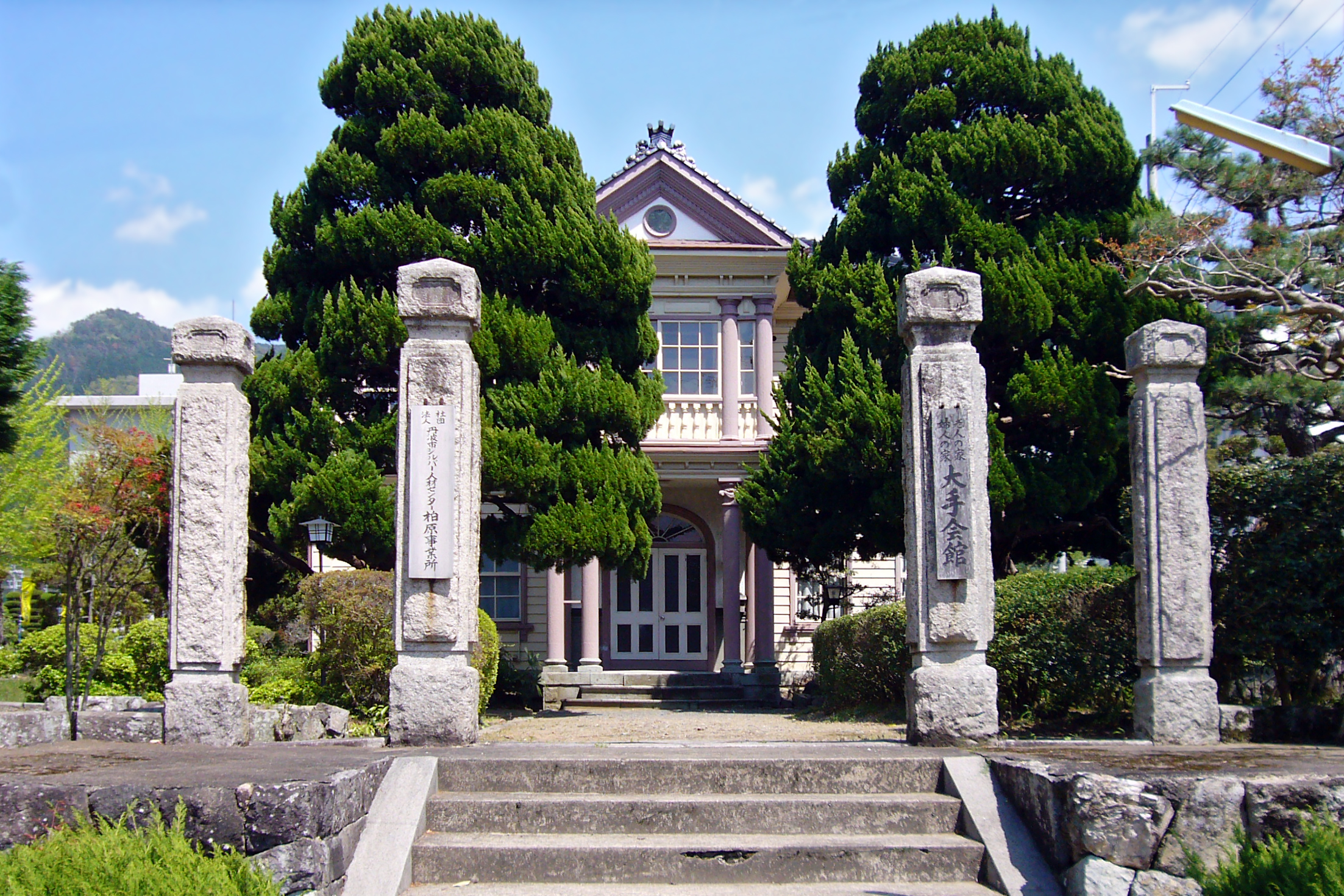 Old Hikami District's Towns-and-villages associations' Higher elementary school in Tamba, Hyogo prefecture, Japan